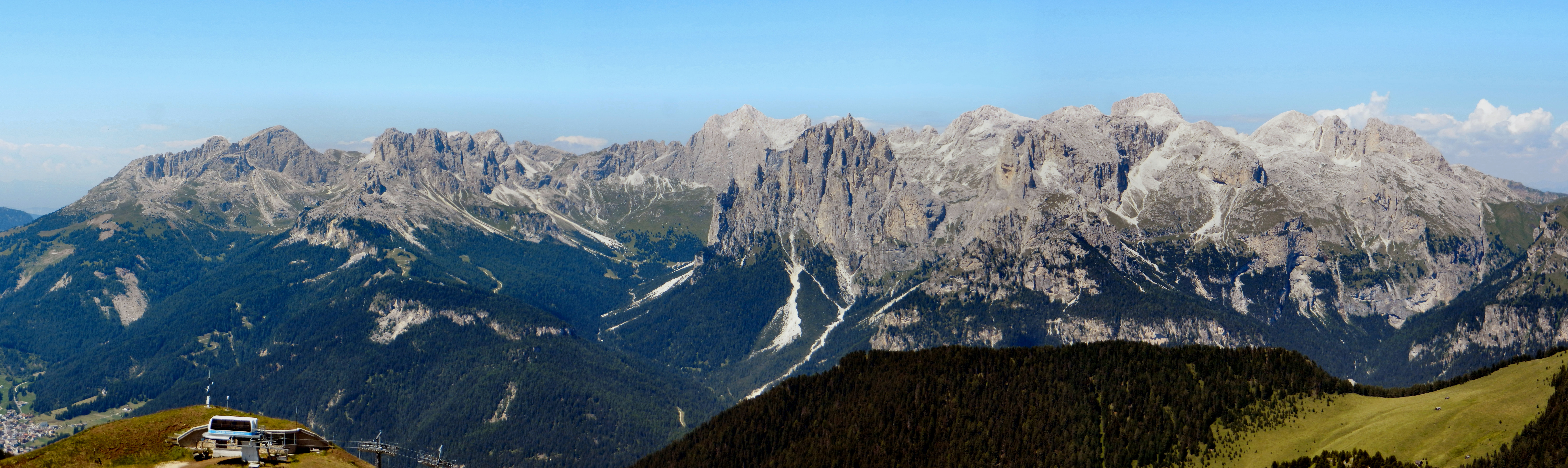 Dolomites (Italy), Catinaccio - Rosengarten from Col Valvacin